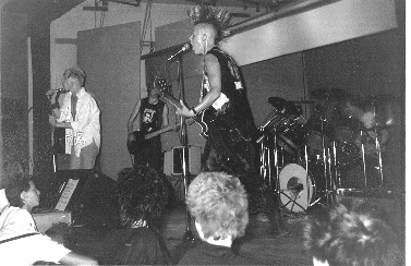 Live in Folkets Hus Uddevalla, Swe 1983